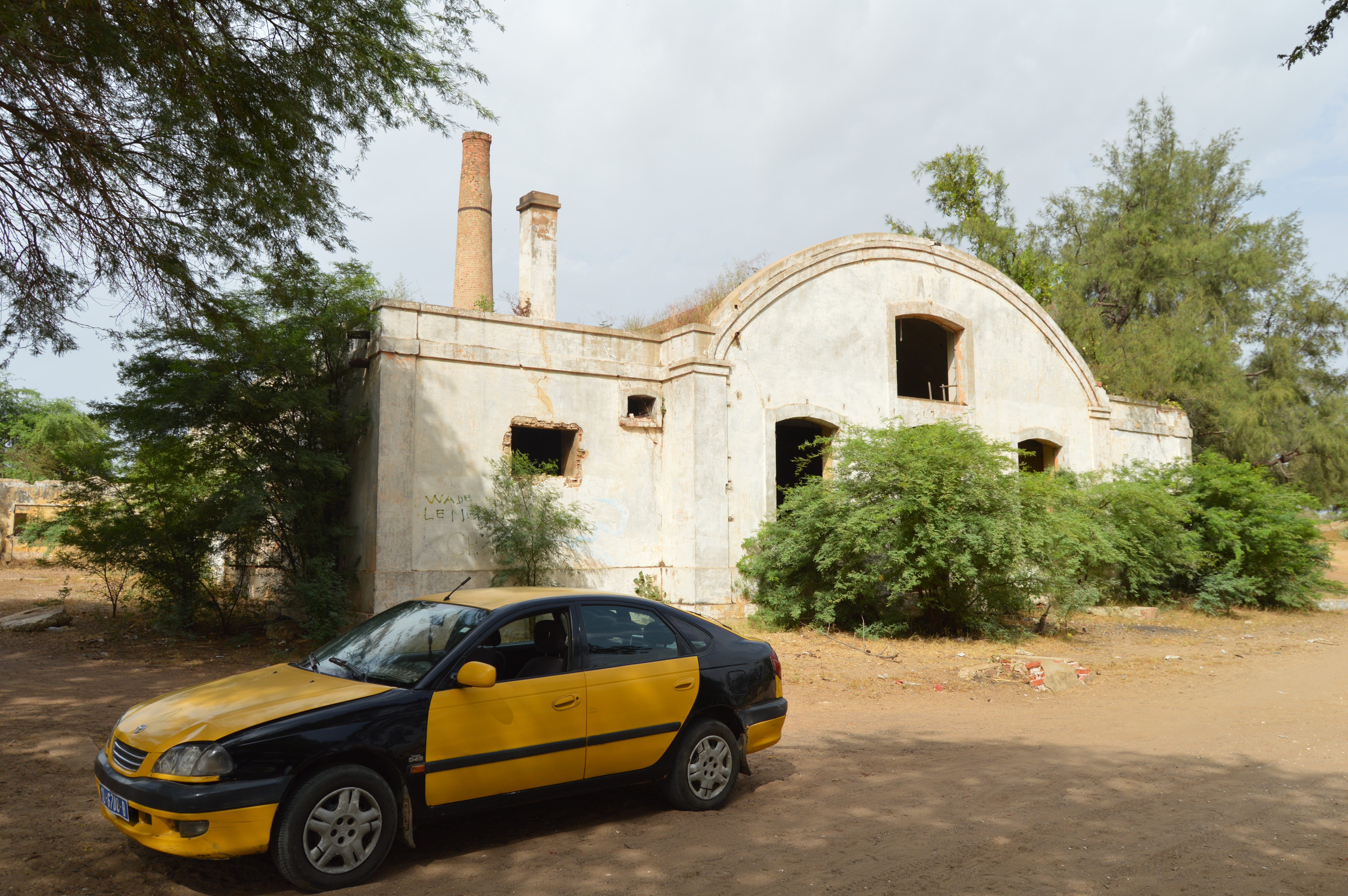 Ancient Mbakhana Water Factory, nearby Saint-Louis, Senegal - oldest building; oldest sub-saharian african existing steam engines.